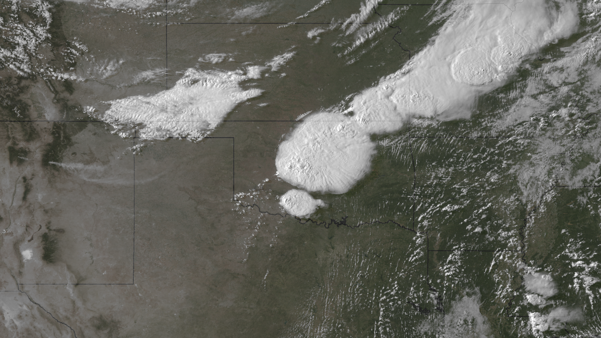 This image from GOES East, taken at 2310Z on May 31, 2013, five minutes after the NOAA National Weather Service Storm Prediction Center received a report of a tornado on the ground, shows the massive system that spawned a long track tornado, assigned a rating of EF-5 on June 4, 2013, that caused extensive damage in areas around El Reno and Union City, Oklahoma. Three seasoned tornado researchers were among the deaths attributed to an extended tornado outbreak from May 26 through May 31, 2013. Credit: NOAA Environmental Visualization Laboratory